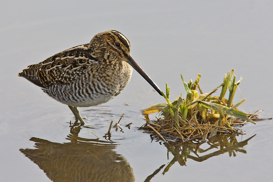 A Wilson's Snipe (Gallinago delicata) in Richmond in British Columbia (Canada)